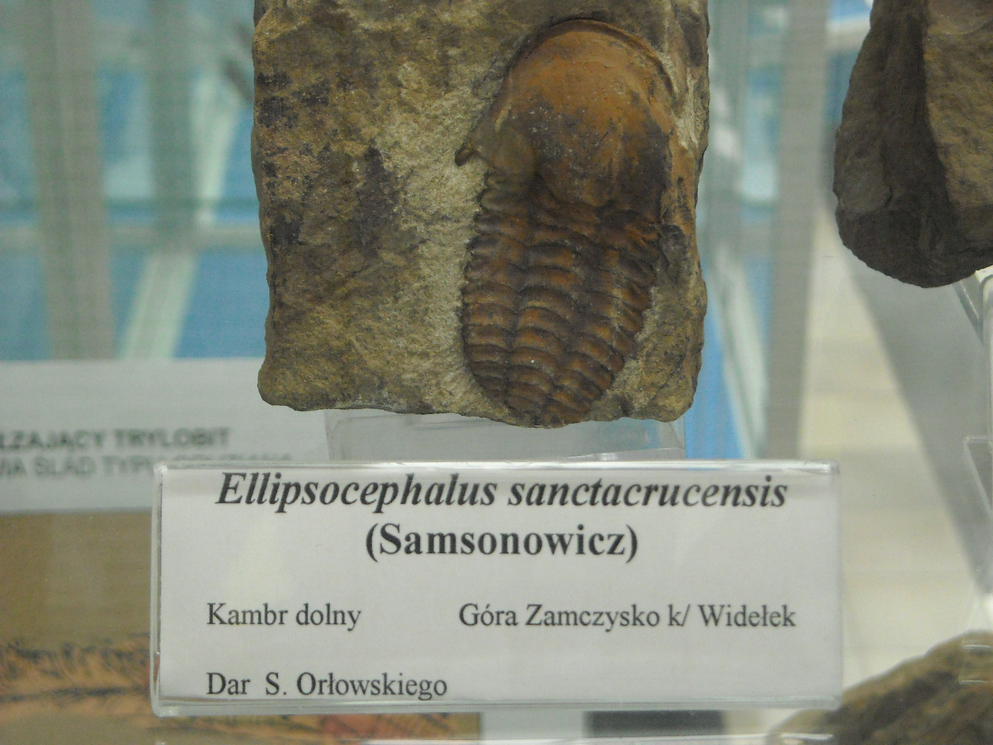 Fossil of Ellipsocephalus santacrucensis - a ellipsocephalid trilobite. This specimen comes from the Lower Cambrian of Poland.